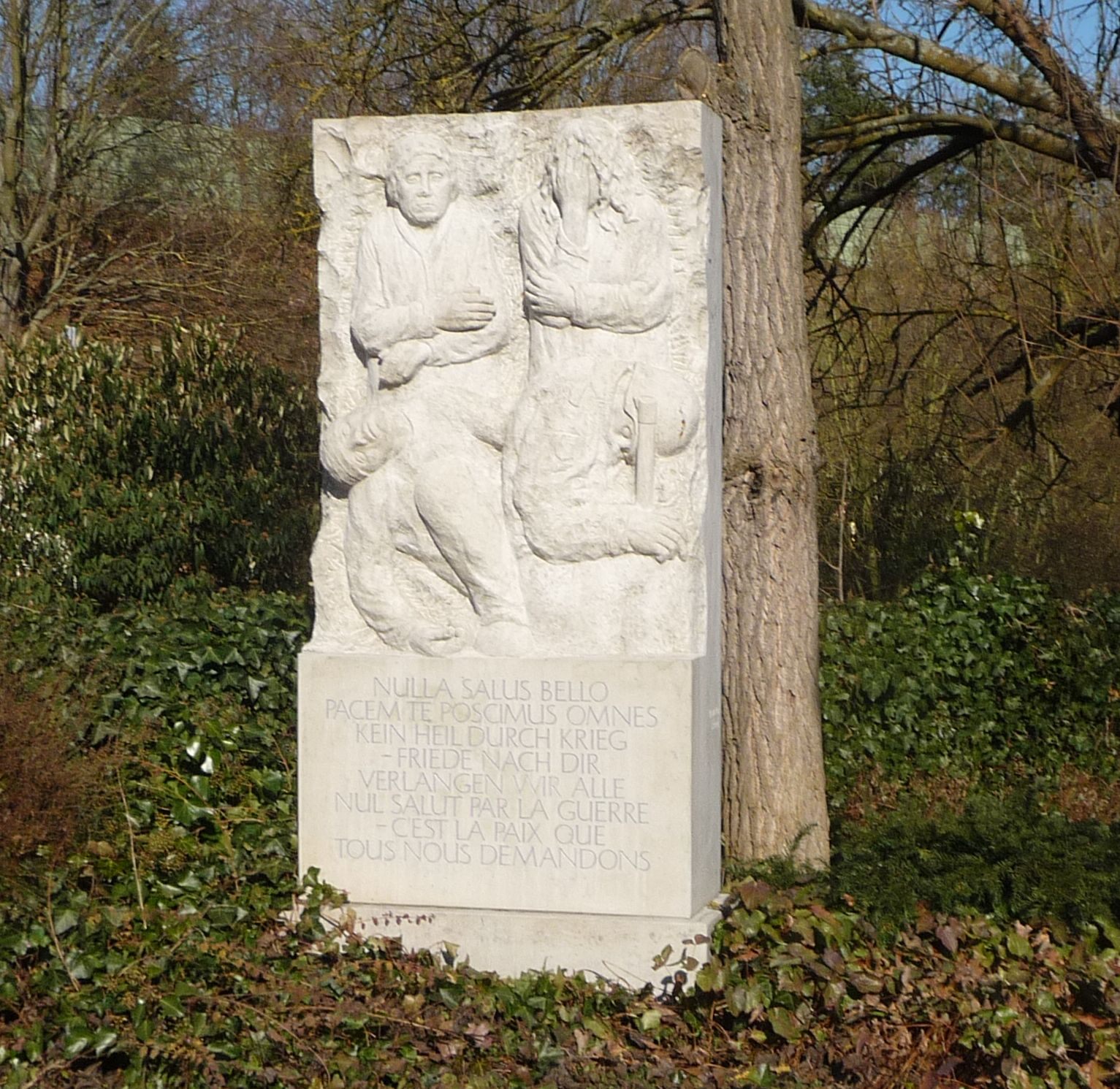 Dudenhofen